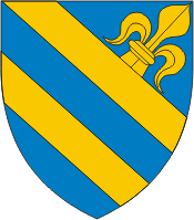 Blazon of Lommis, Canton of Thurgau, SwitzerlandEsperanto: Blazono de Lommis, Kantono Turgovio, Svislando